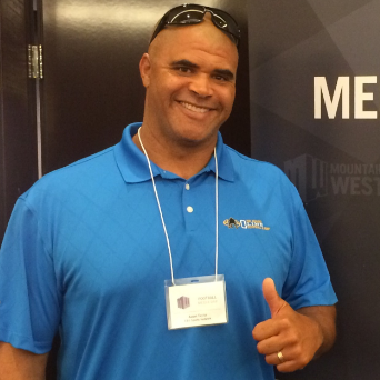 Aaron Taylor, retired American football offensive guard and TV analyst, at the 2016 Mountain West Conference Media Days in the The Cosmopolitan in Las Vegas.